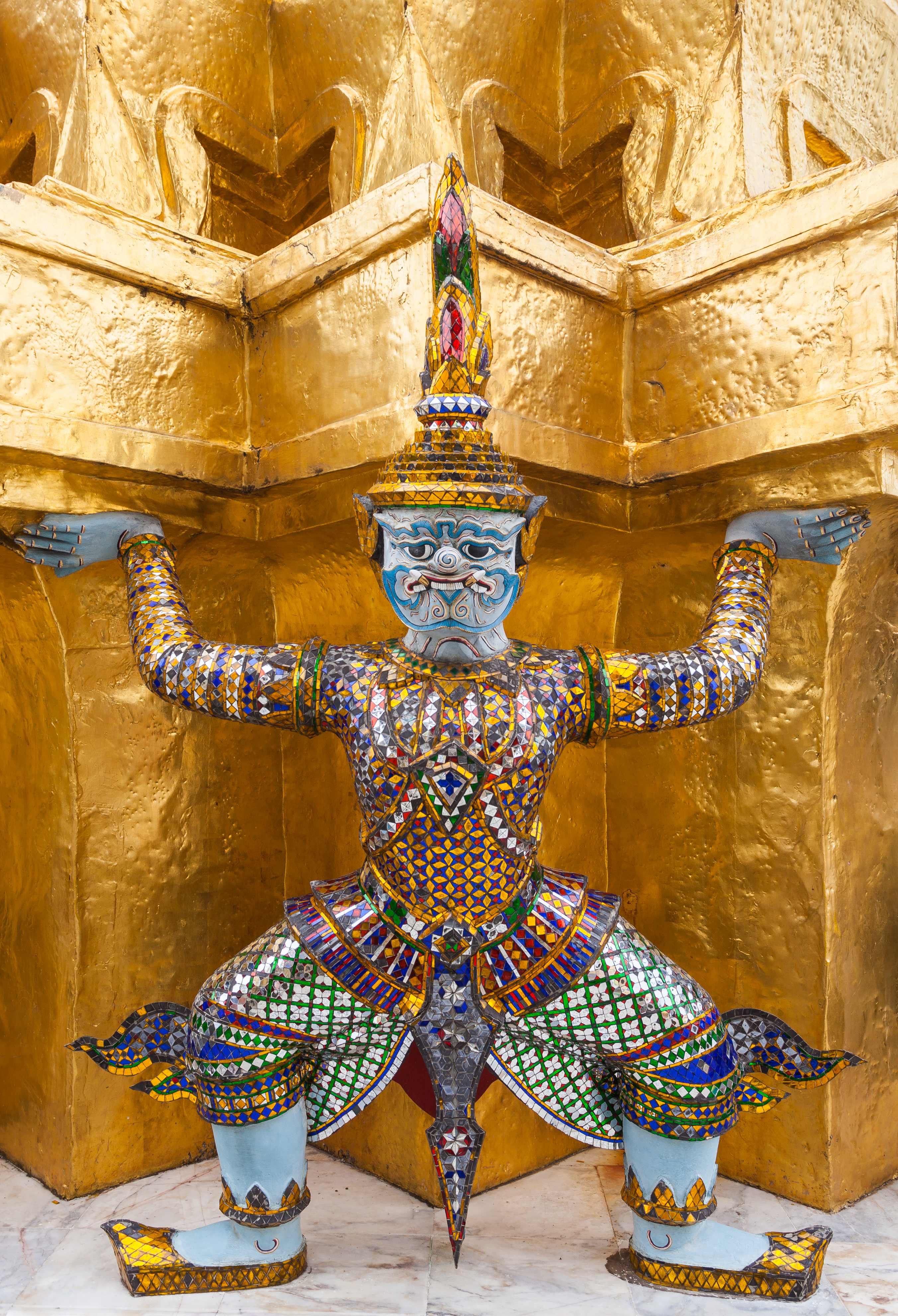 Yaksha (mysthical demon) "lifting" the southern of the Two Golden Phra Chedis (or pagodas) located on the Phaithee terrace in the Wat Phra Kaew (or Temple of the Emerald Buddha) in Bangkok, Thailand. The chedis were constructed by order of King Rama I in honor of his father (southern pagoda) and mother (northern pagoda) at the end of the 18th century. The structures are entirely covered with copper sheets, painted with lacquer and covered with gold leaf. The 20 demons and monkeys around the base were added later, at the end of the 19th century, by order of King Rama V.